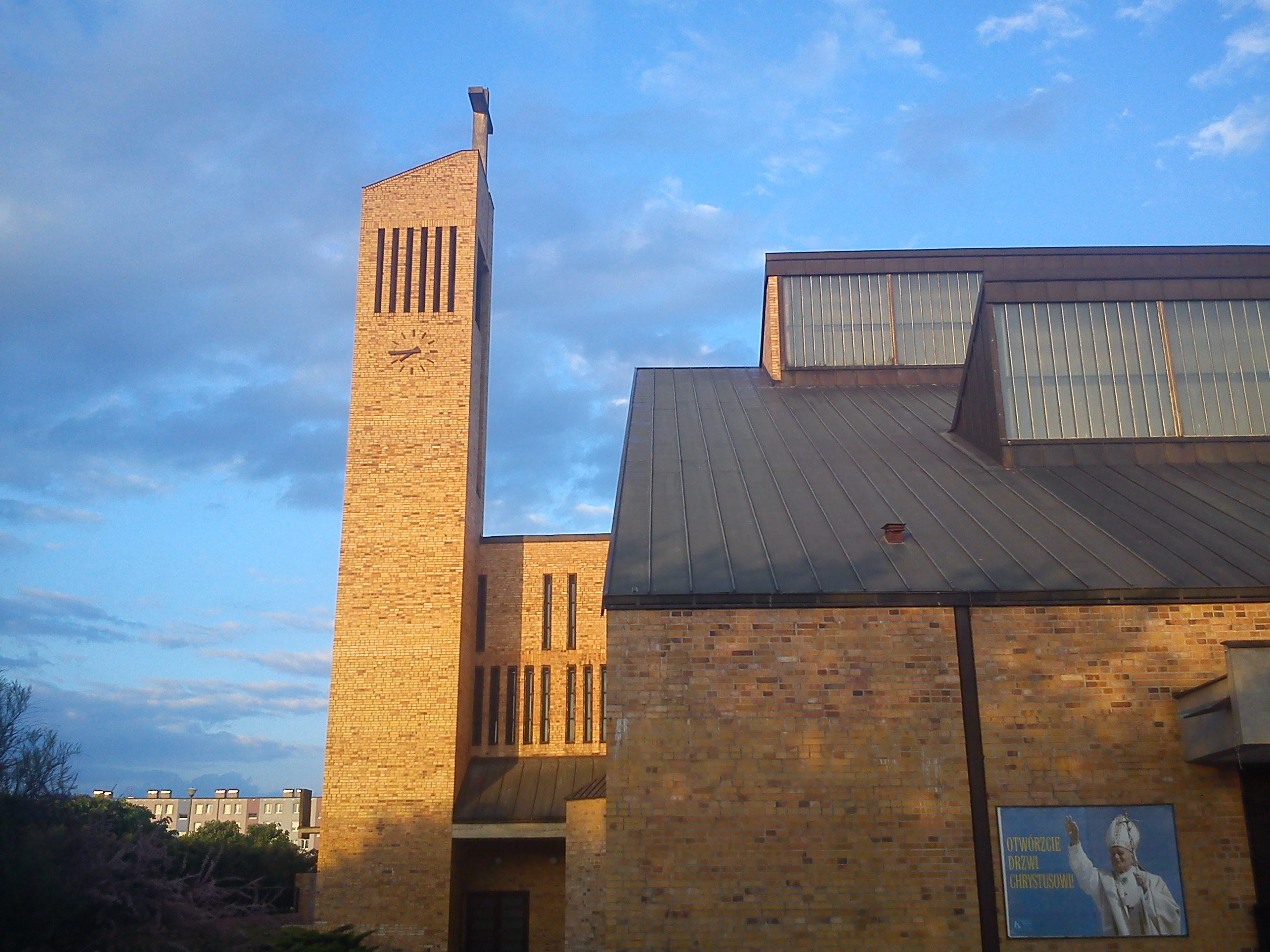 Church, Poznan, Wichrowe Wzgorze District.